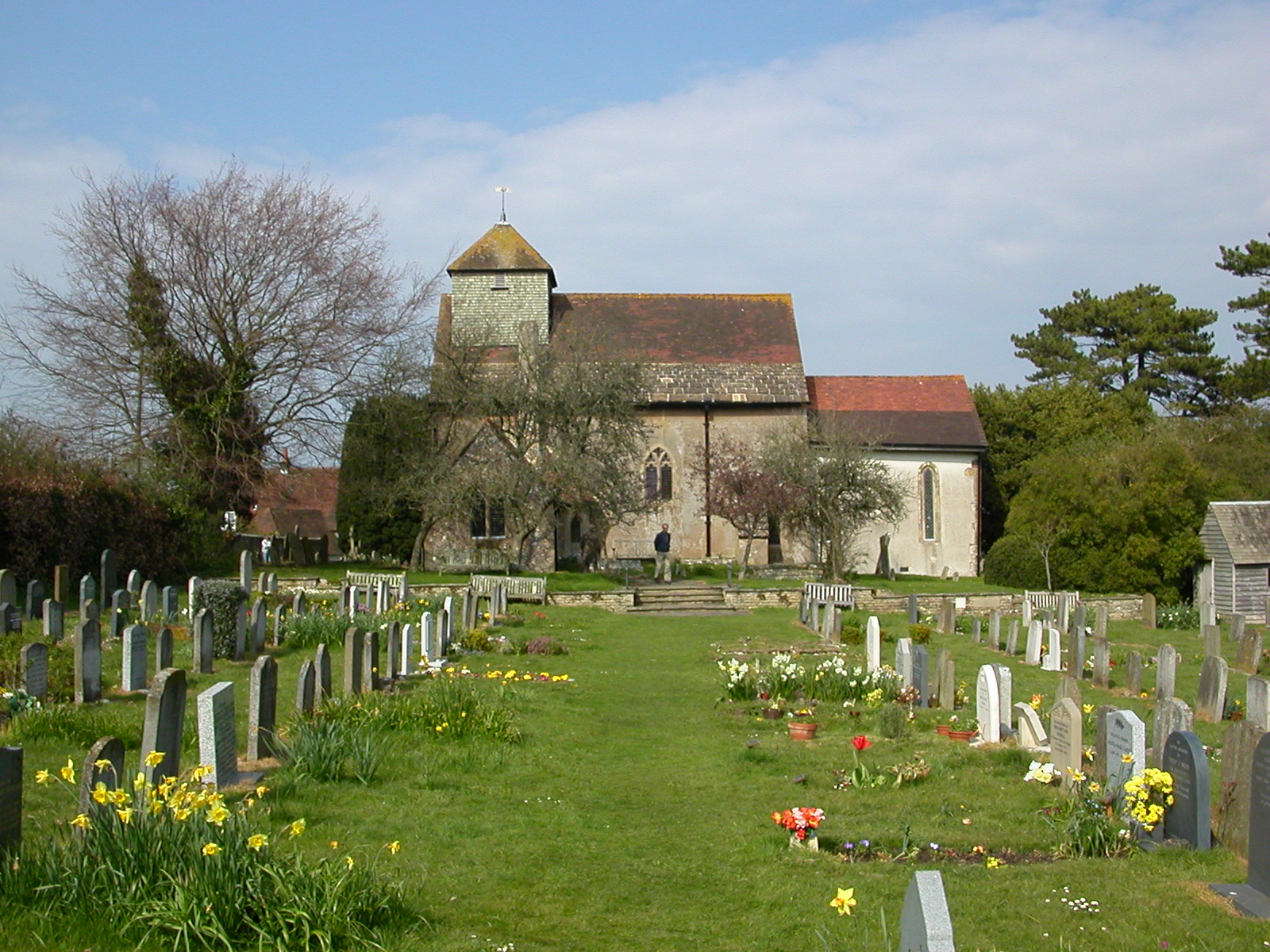 St John the Baptist parish church, Clayton, West Sussex, seen from the south